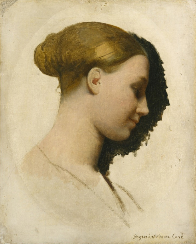 Portrait of Mme Edmond Cavé (1806–1883), née Marie-Élisabeth Blavot